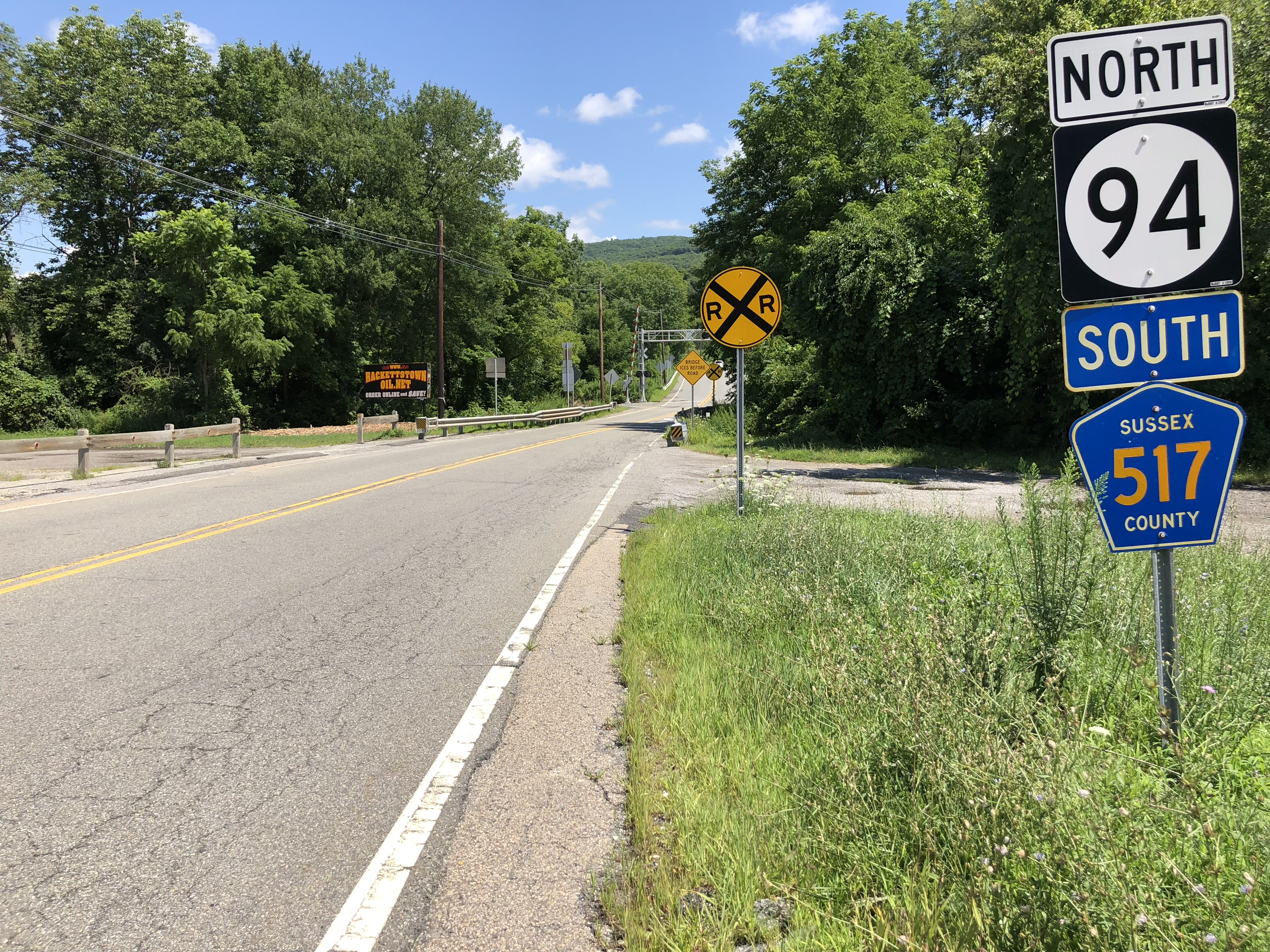 View north along New Jersey State Route 94 and south along Sussex County Route 517 (McAfee-Vernon Road) at McAfee-Glenwood Road in Vernon Township, Sussex County, New Jersey